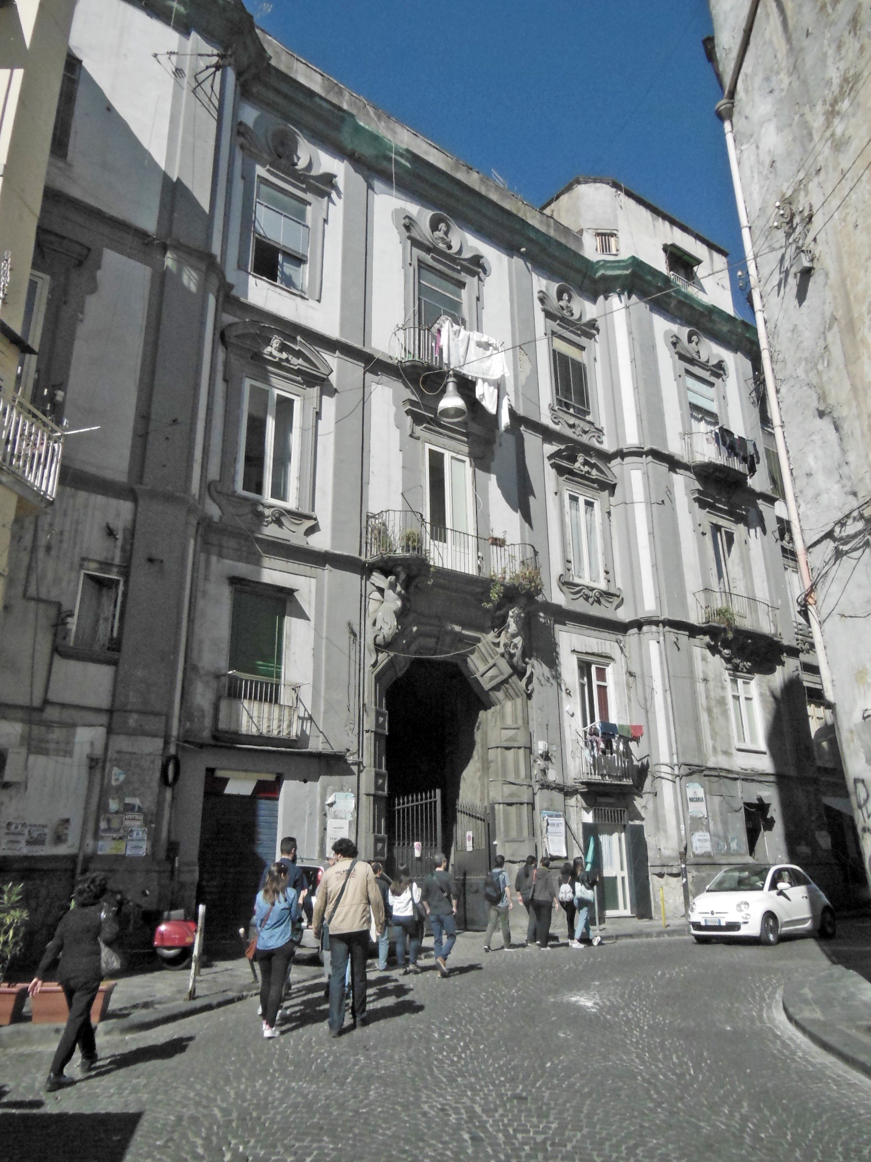 Naples, Sanfelice palace in the rione Sanità, facade